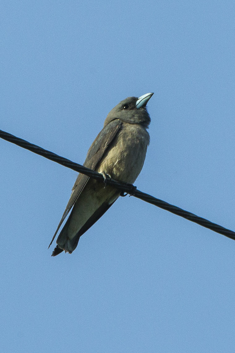 Ashy Woodswallow - Thailand_S4E5040